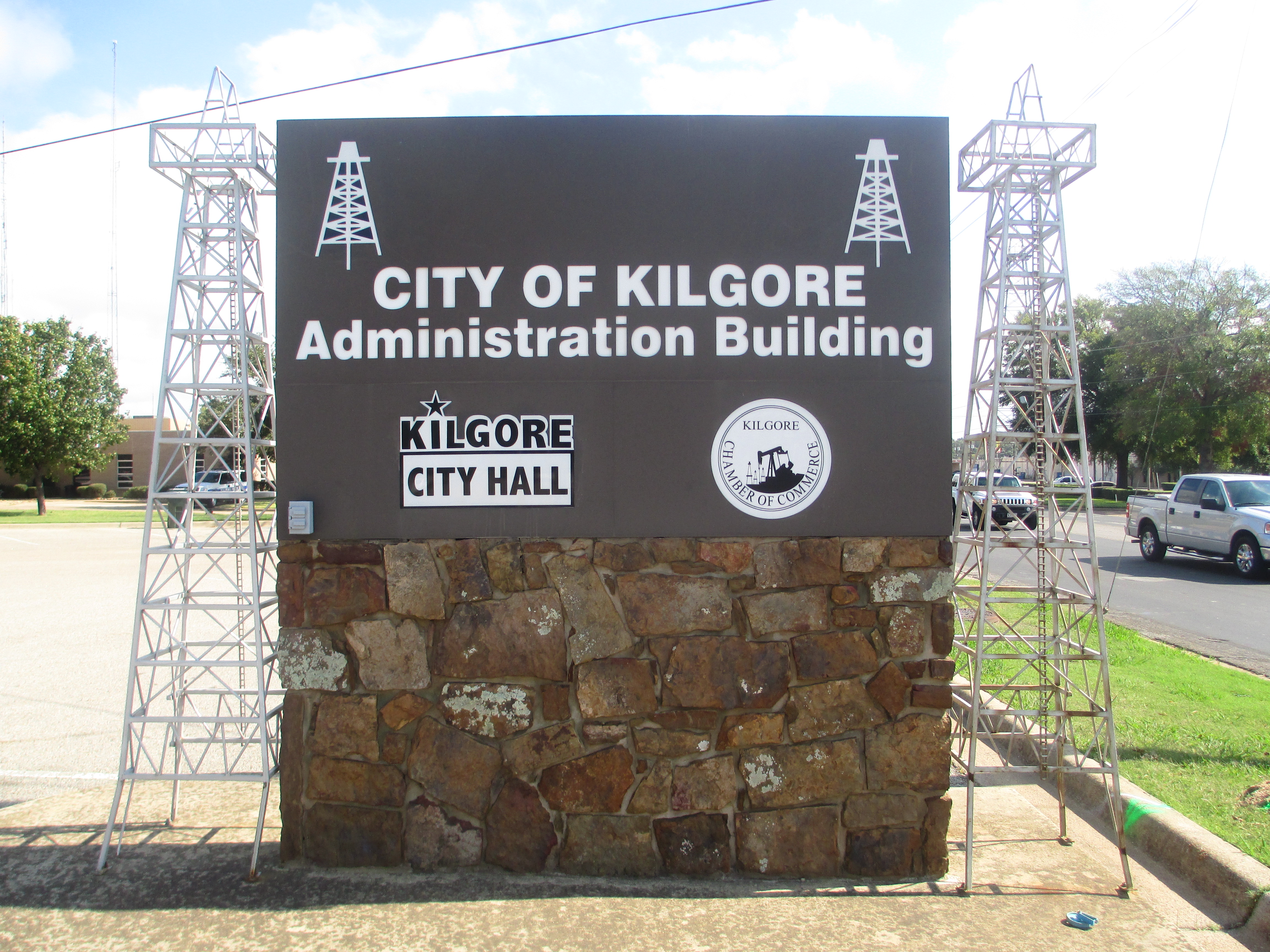 I took photo with Canon camera in Kilgore, TX.